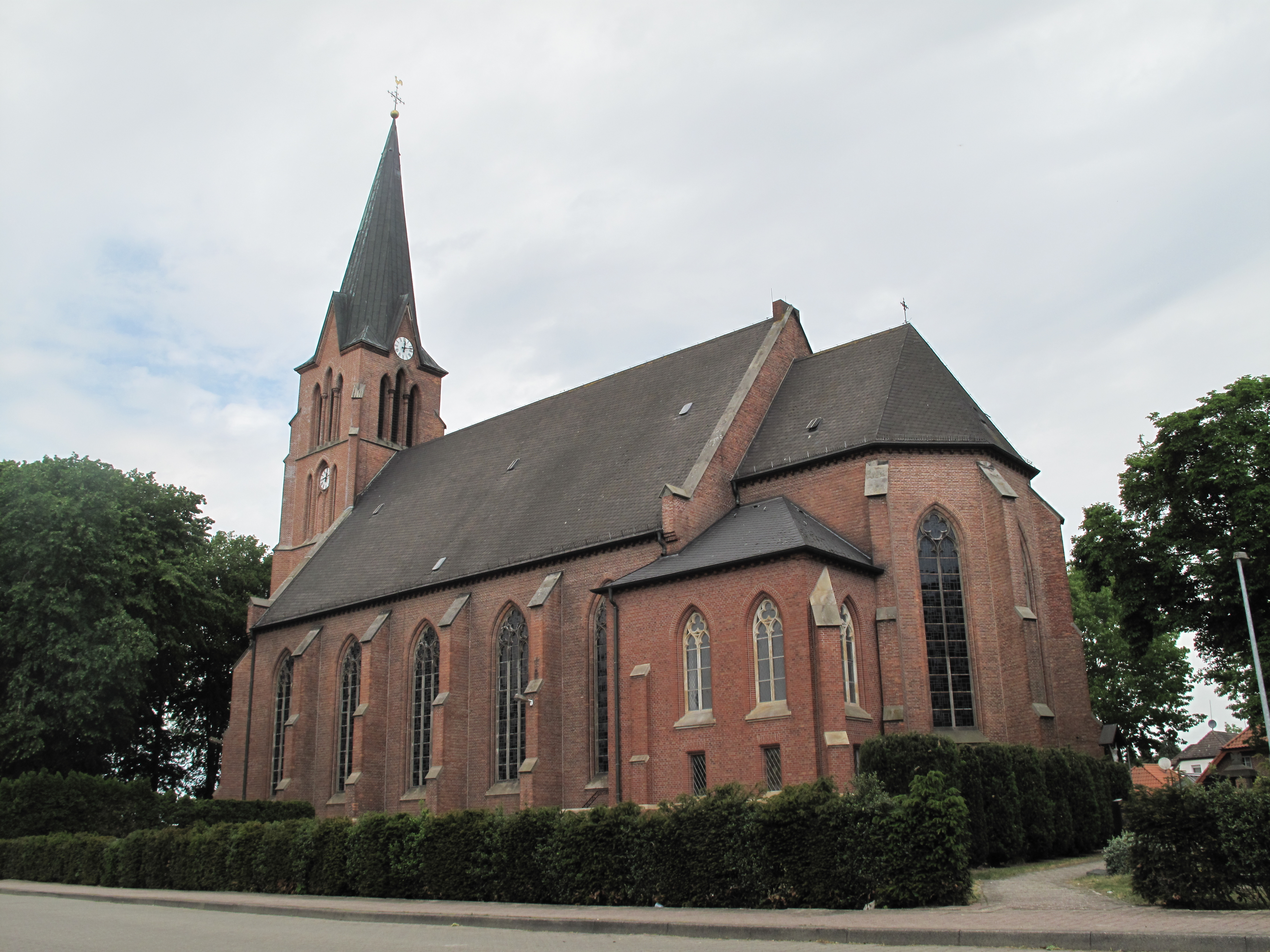 Rütenbrock, church